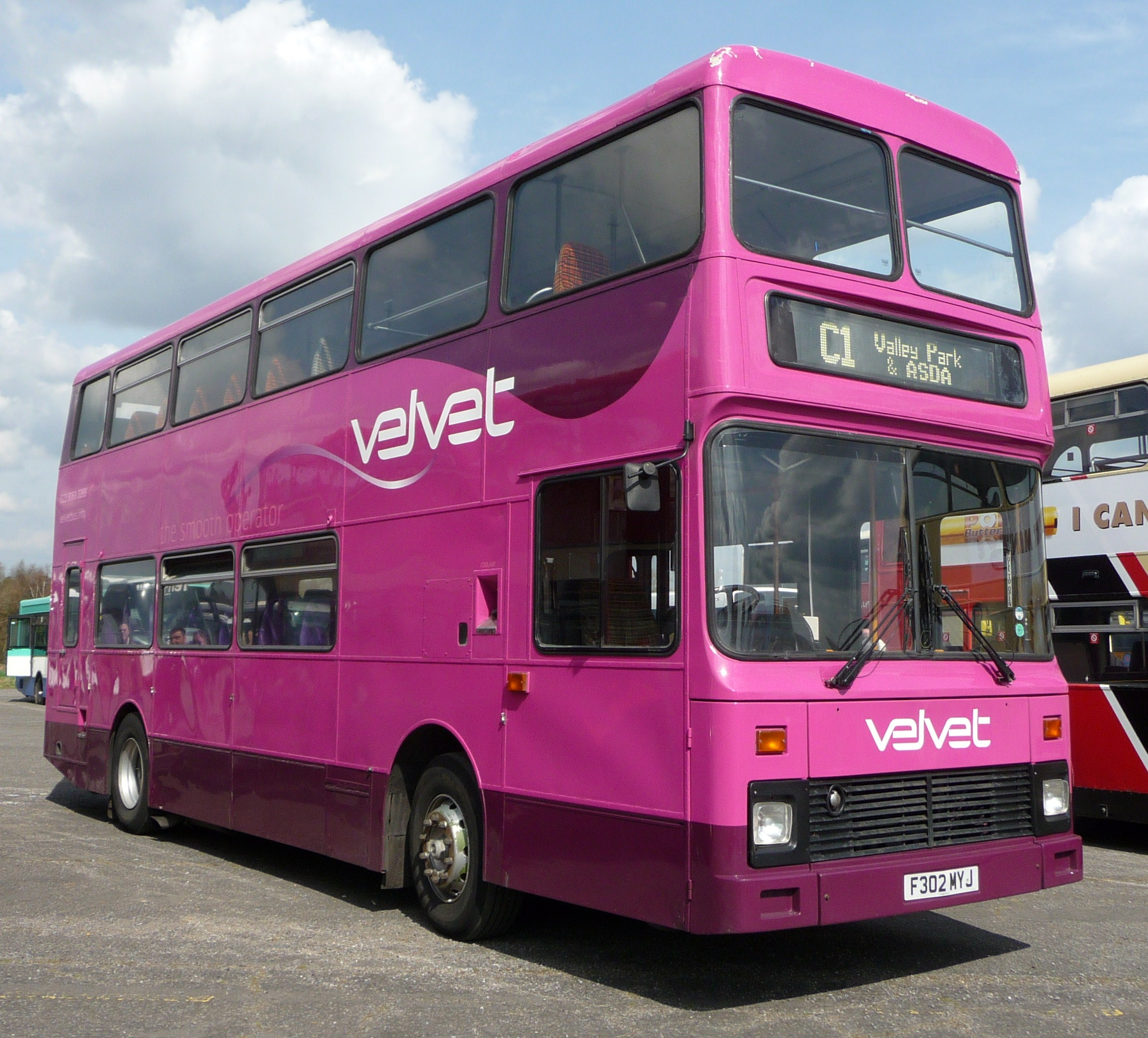 Velvet's 302 (F302 MYJ), a Volvo B10M/Northern Counties Palatine, at the 2009 Cobham bus rally at Wisley Airfield.